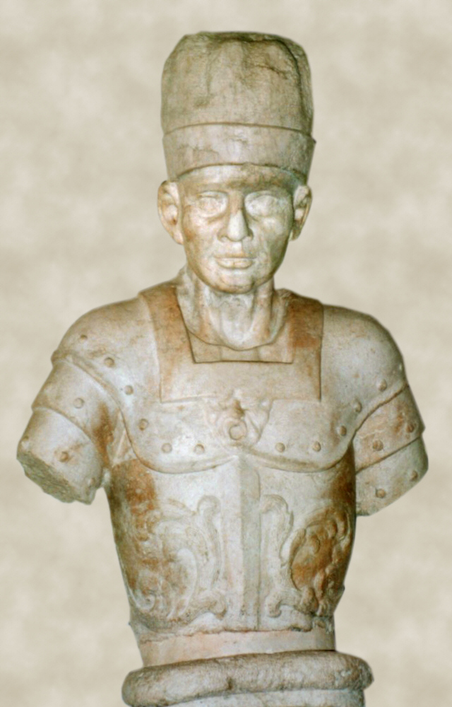 Presumed bust of italian condottiere Bartolomeo Colleoni